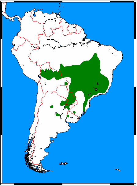 Maned Wolf (Chrysocyon brachyurus) range map, made by me with help of Map depending on the range map at IUCN red list.